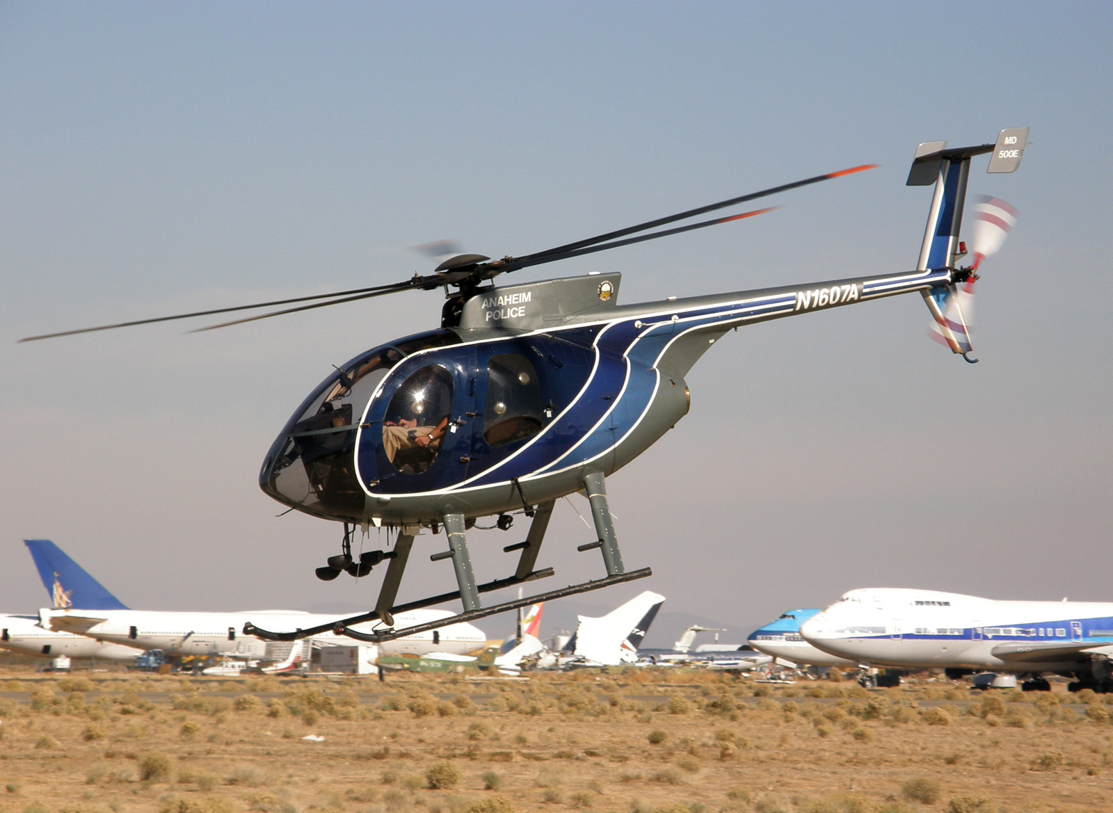 Anaheim Police Department MD500E at Mojave